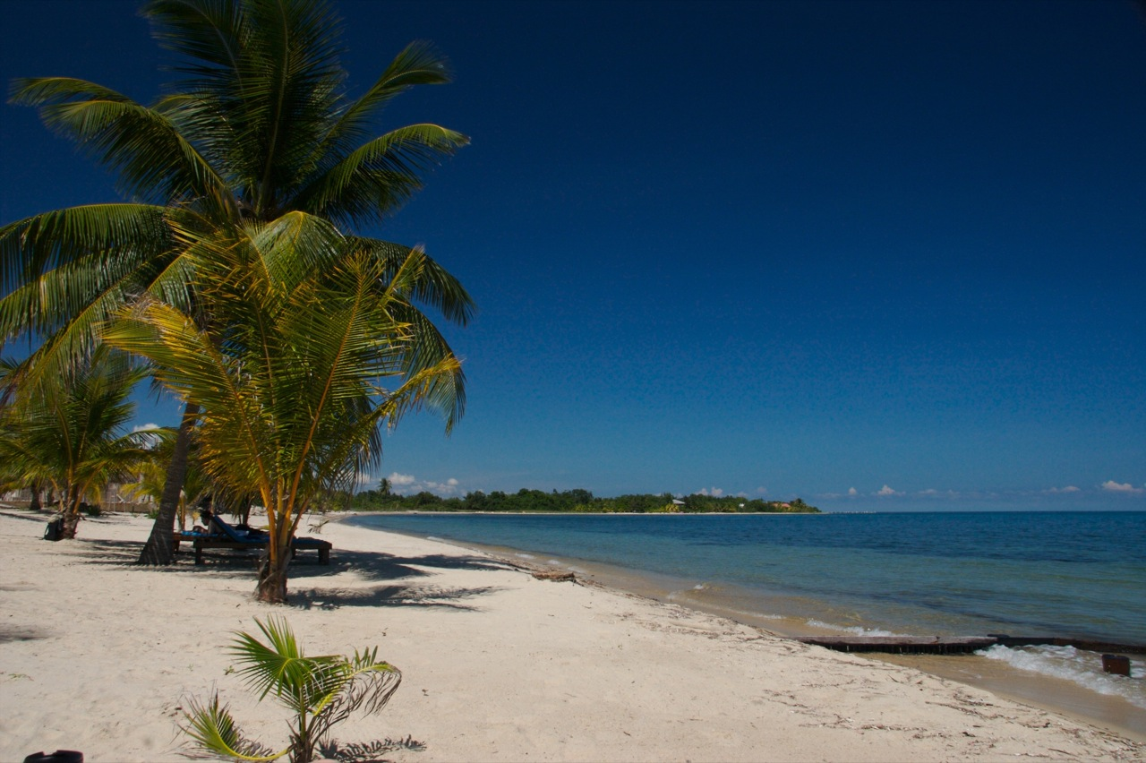 Beach front at Placencia, Belize Licensing